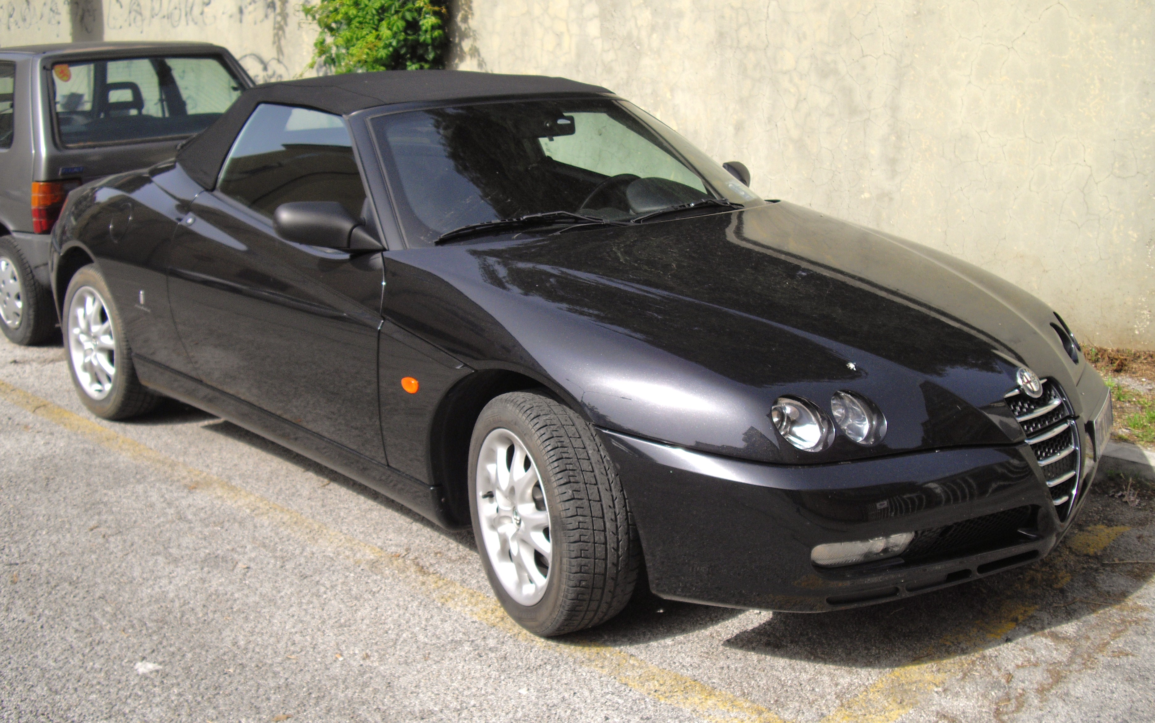 Alfa Spider facelift